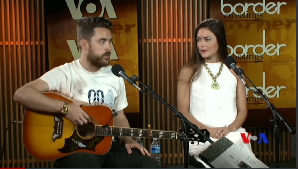 Extracted from the video posted on the Voice of America. Cardiknox on the VOA program "Border Crossings".